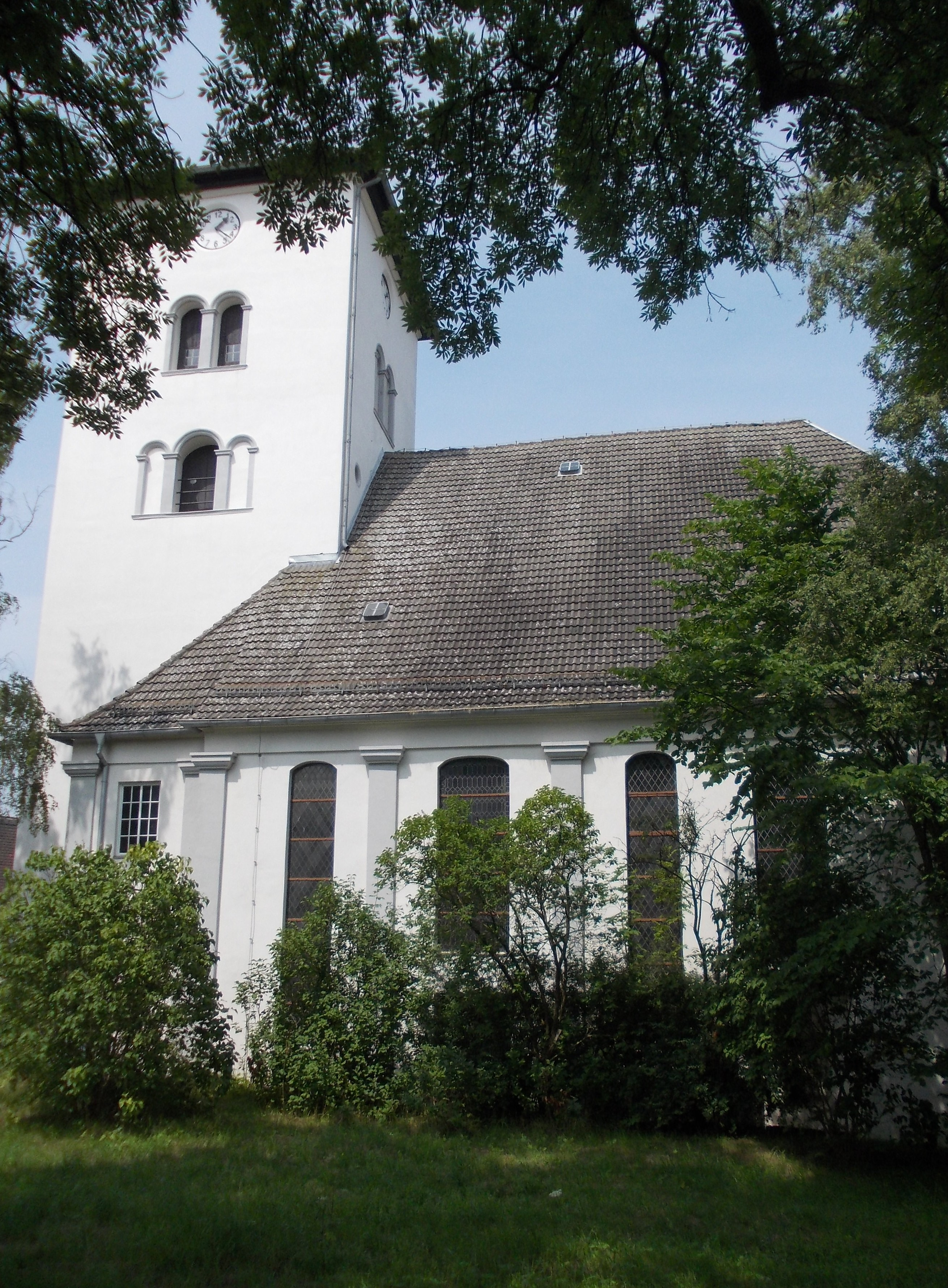 St. Leonard's Church in Bad Köstritz (Greiz district, Thuringia)